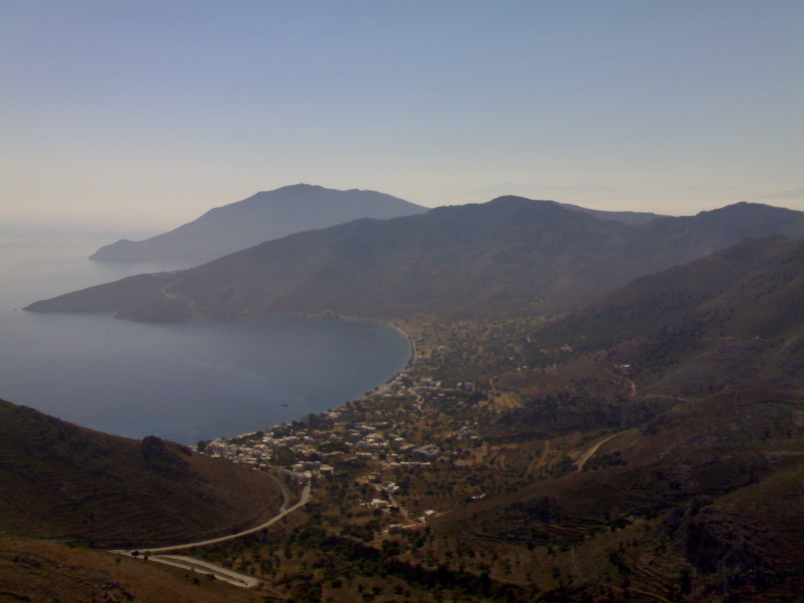 View over Livadhia - port and maint village on the island of Tilos.